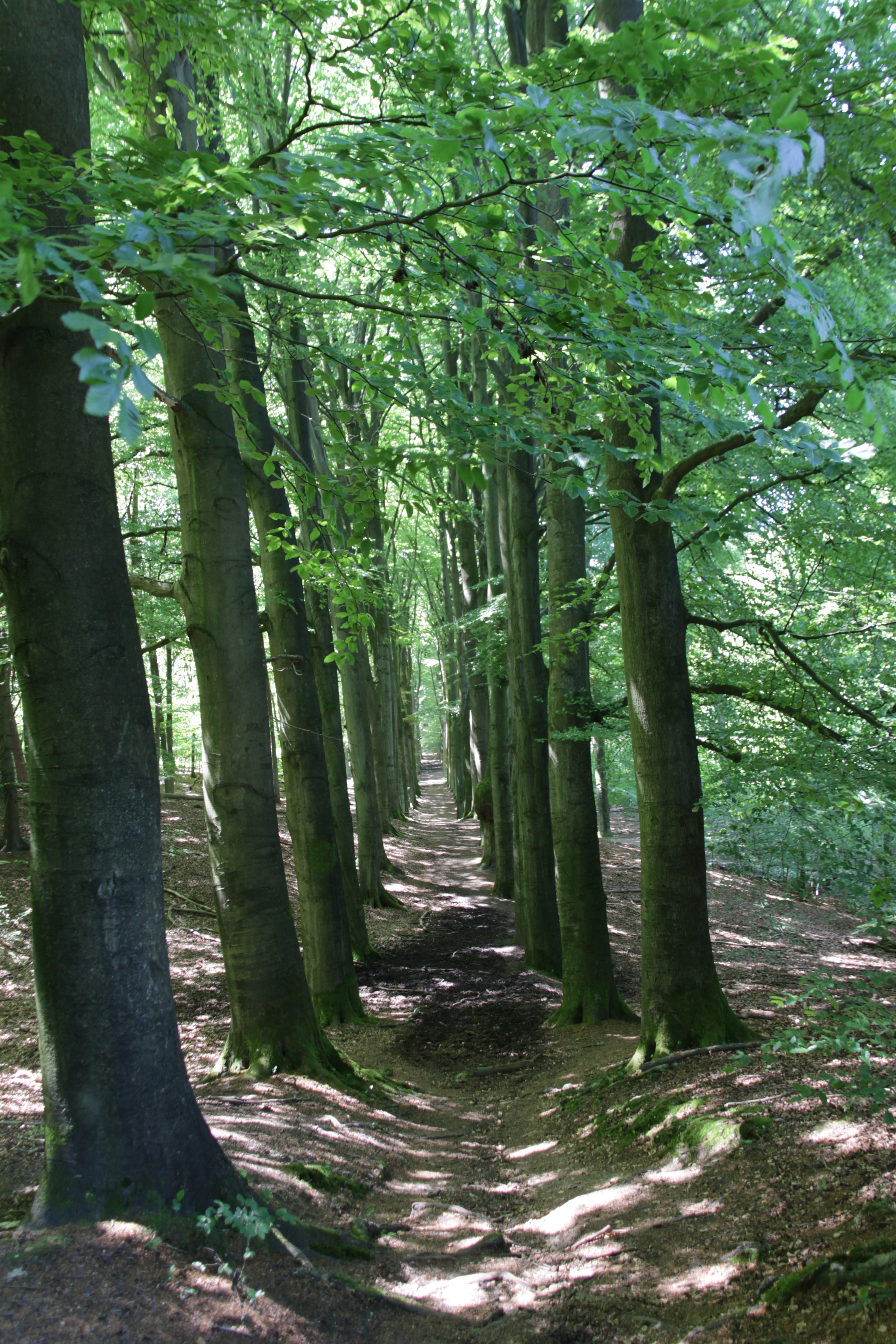 Koningslaan at the Posbank, Nationaal Park Veluwezoom, Nederland